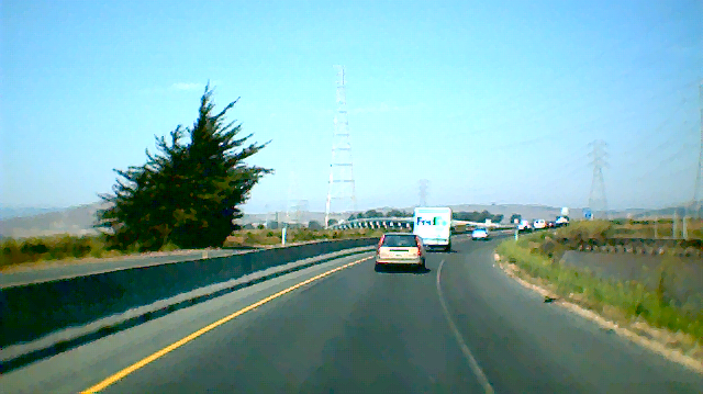 Westbound California State Route 37 through the wetlands of the San Pablo Bay. This stretch of road was dubbed "blood alley" for its high rate of fatal accidents before the barrier was erected.